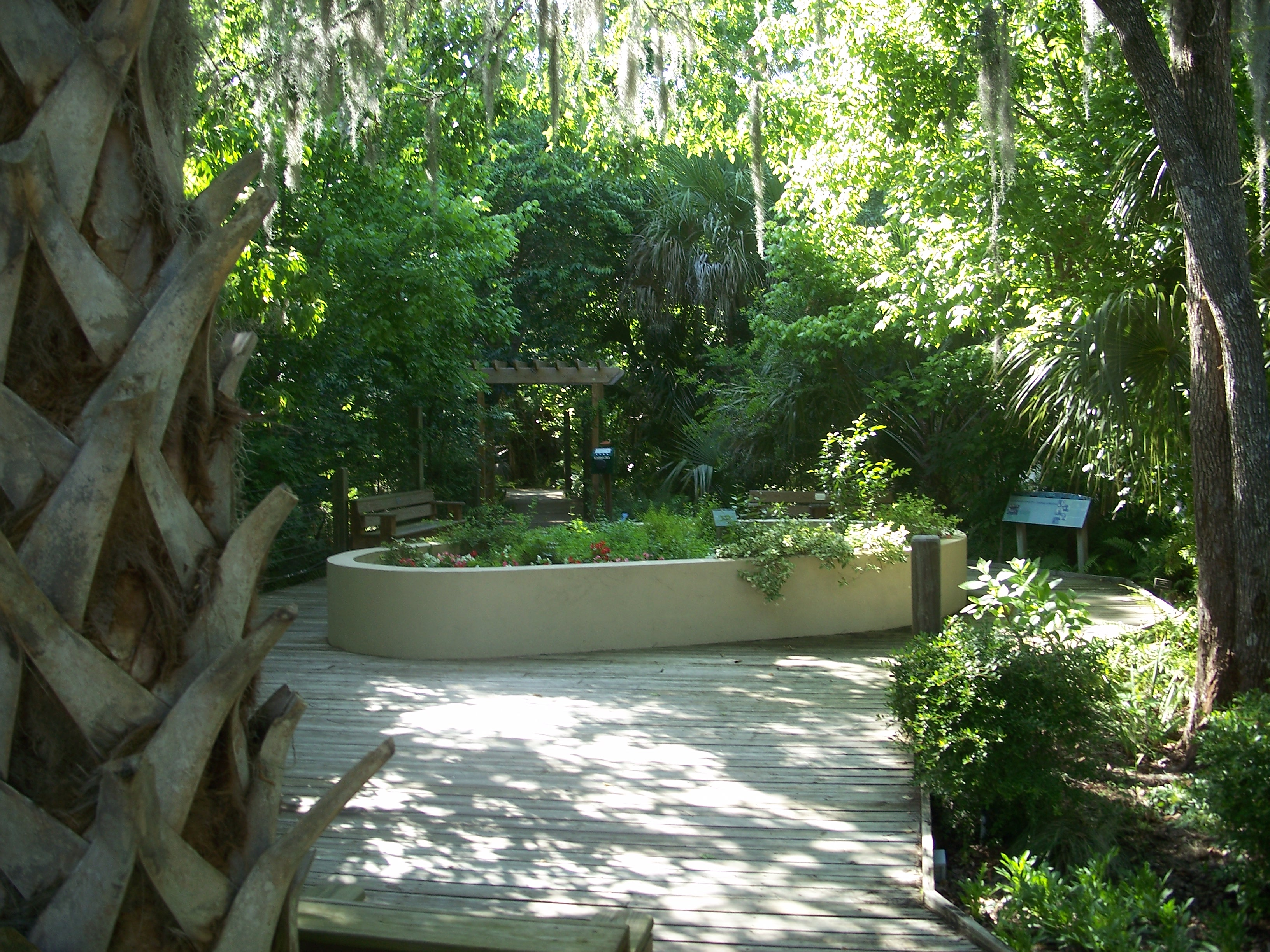 Daytona Beach, Florida: Museum of Arts and Sciences: Environmental Education Complex